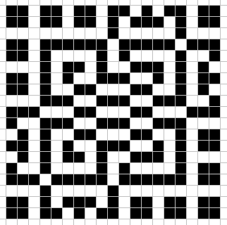 This is a solution for the "maximum density problem" in Conway's Game of Life, for 19x19 square.